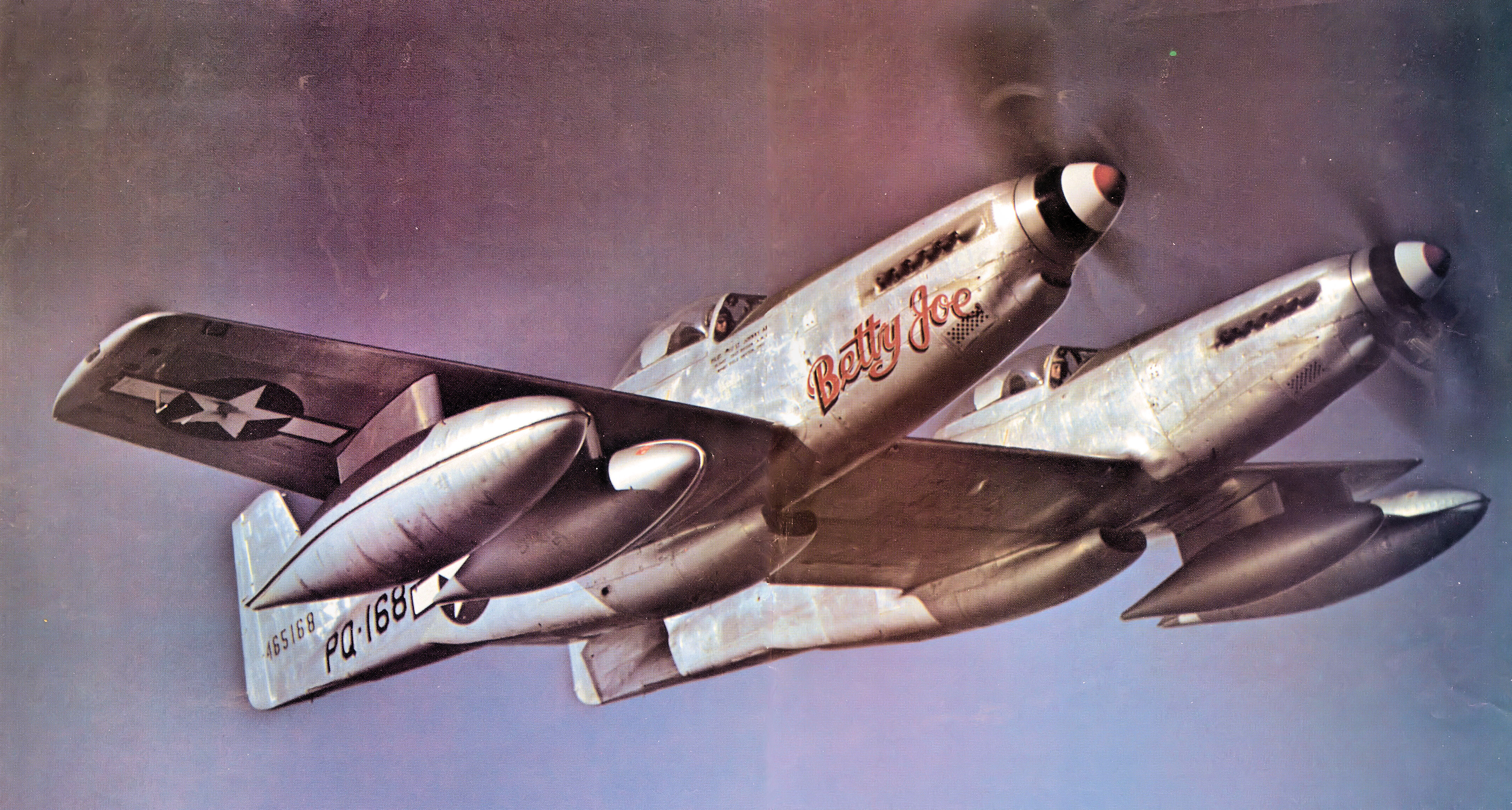 F-82B Betty Jo 44-65169 color 1947 high resolution